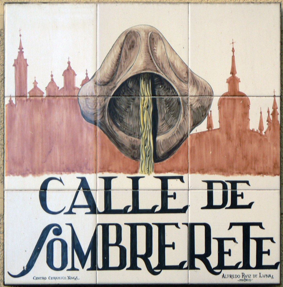 Sign of Calle de Sombrerete (street, Centro district) in Madrid (Spain).